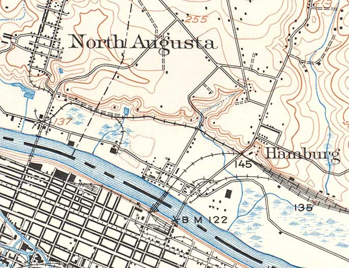 Hamburg, South Carolina in 1921. Hamburg is directly on the Savannah River above "B M 122" on the map.